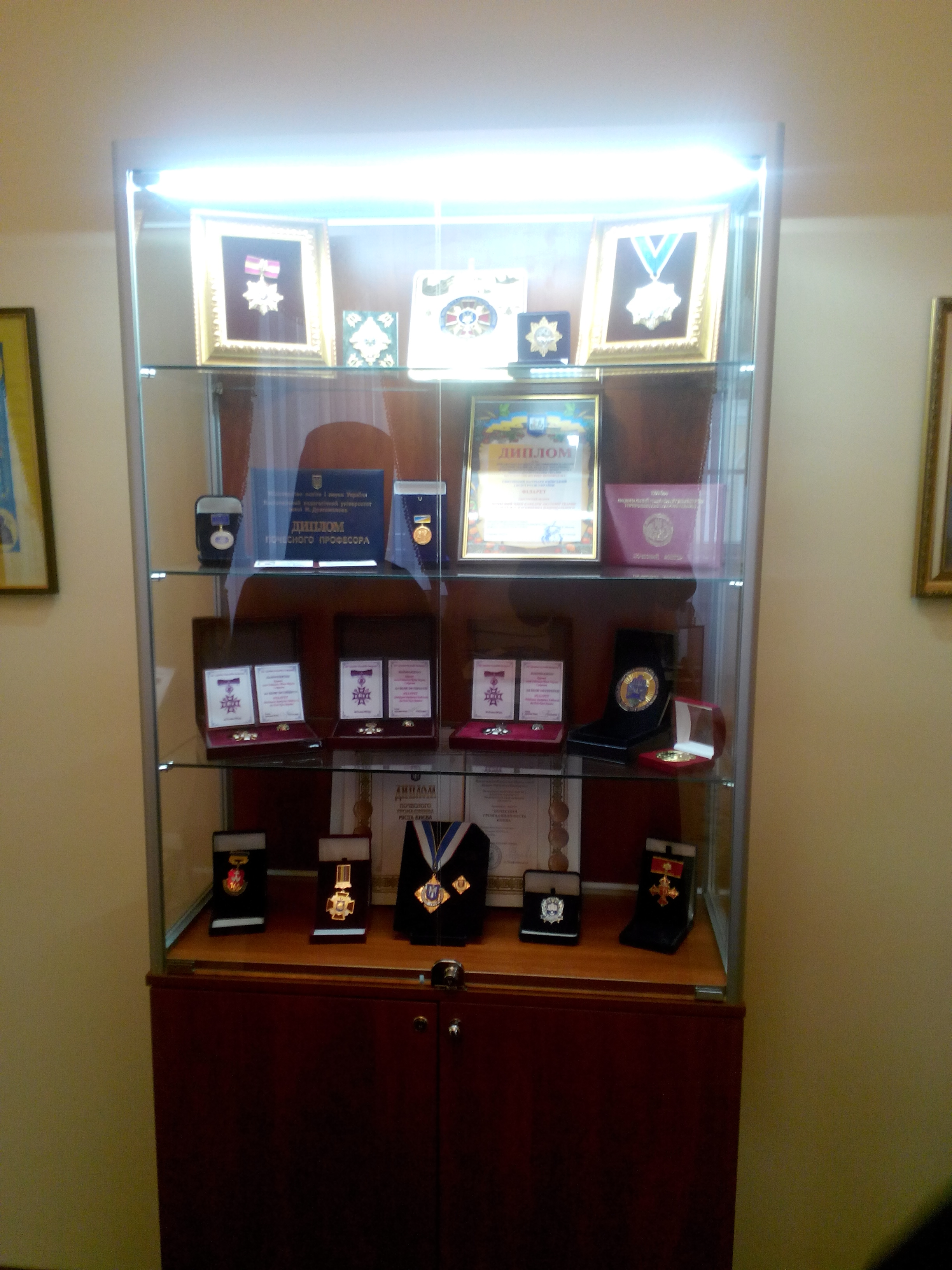 Нагороди святішого Патріарха Філарета на виставці.jpg